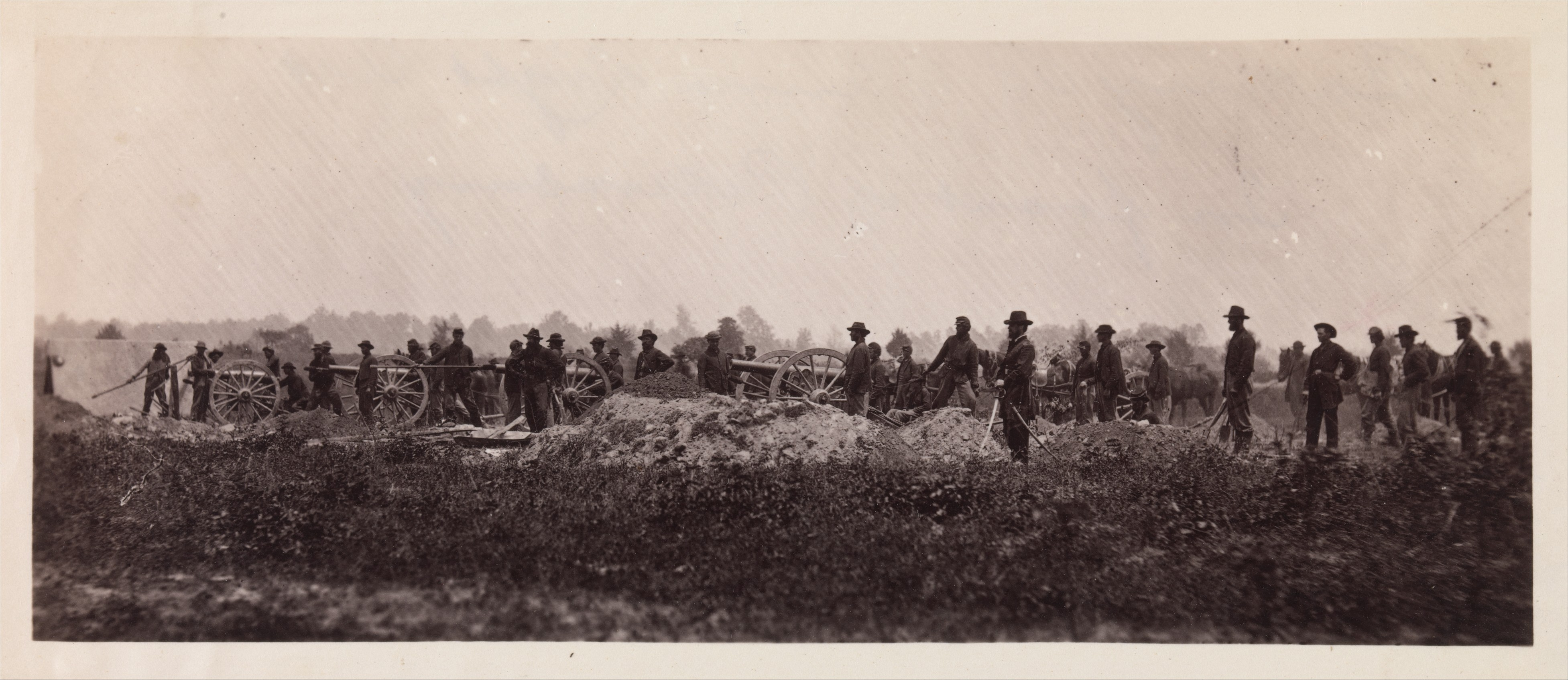 Battery B, 1st Pennsylvania Light Artillery deployed near the Col. John Avery's House south of Petersburg, Virginia, June 21, 1864.